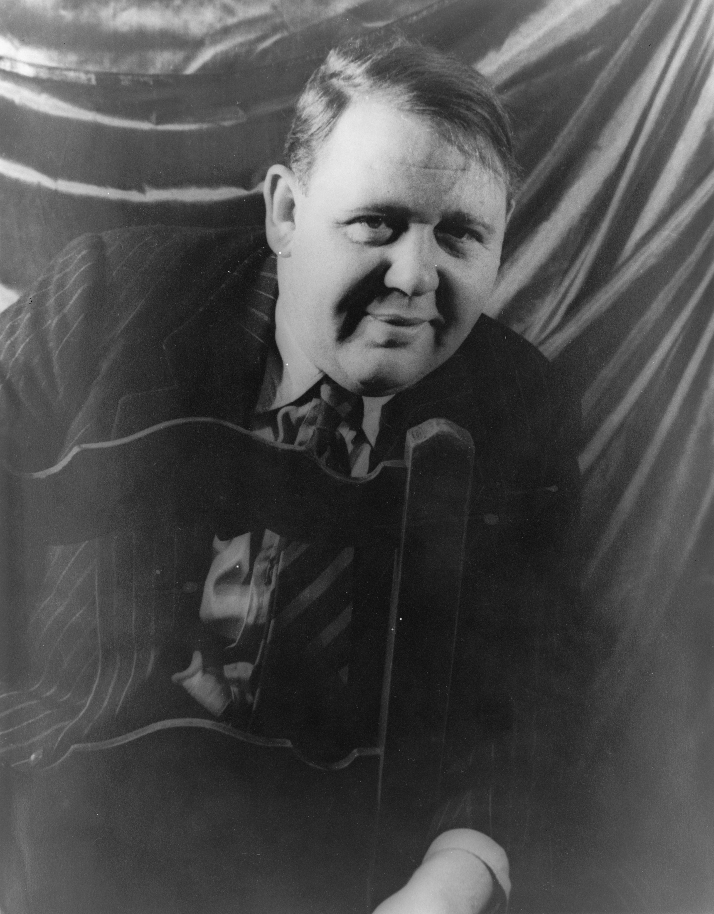 Portrait of Charles Laughton